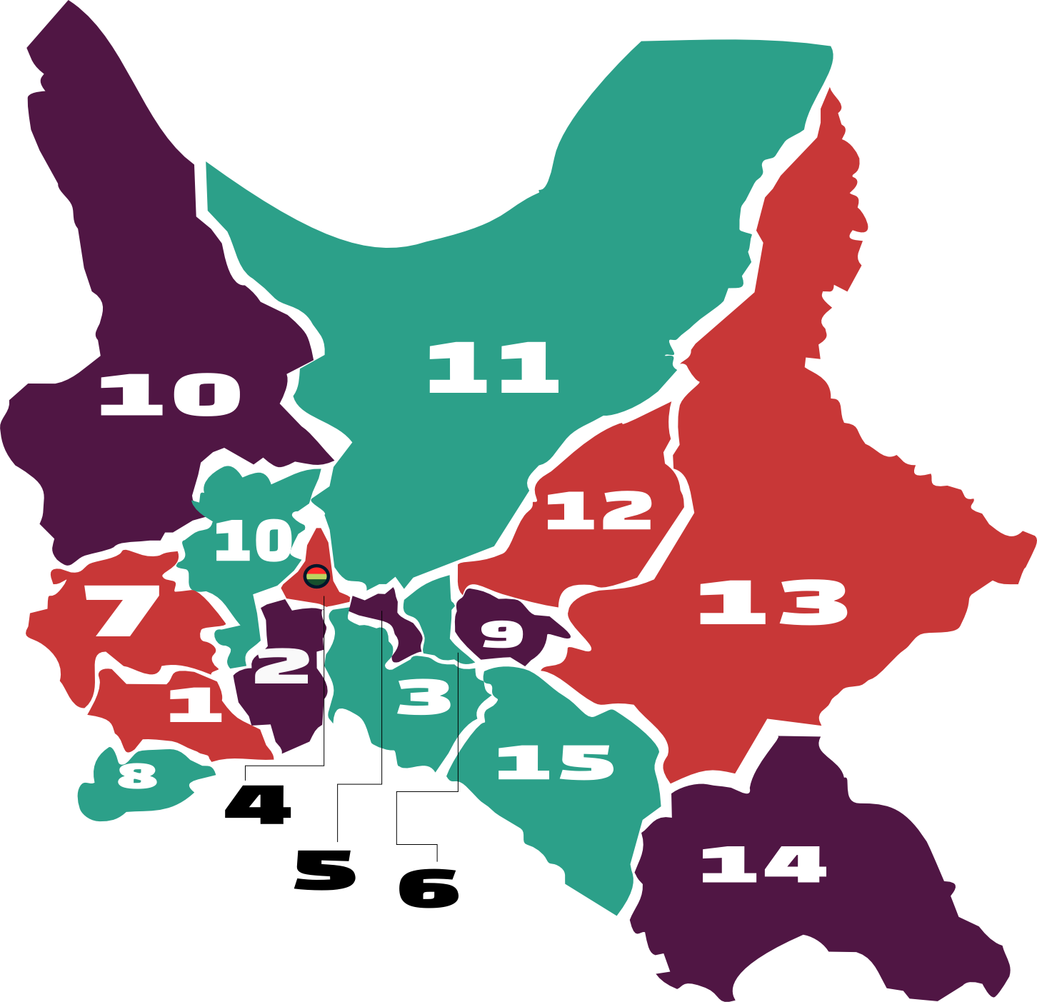 departement map